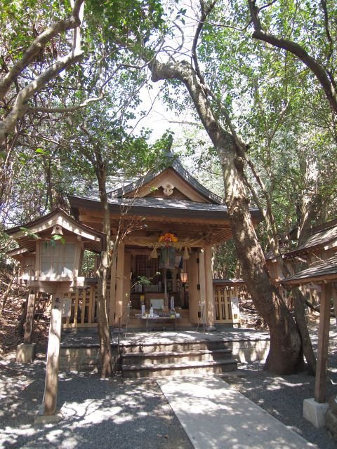 Takachiho, Miyazaki Pref., Japan